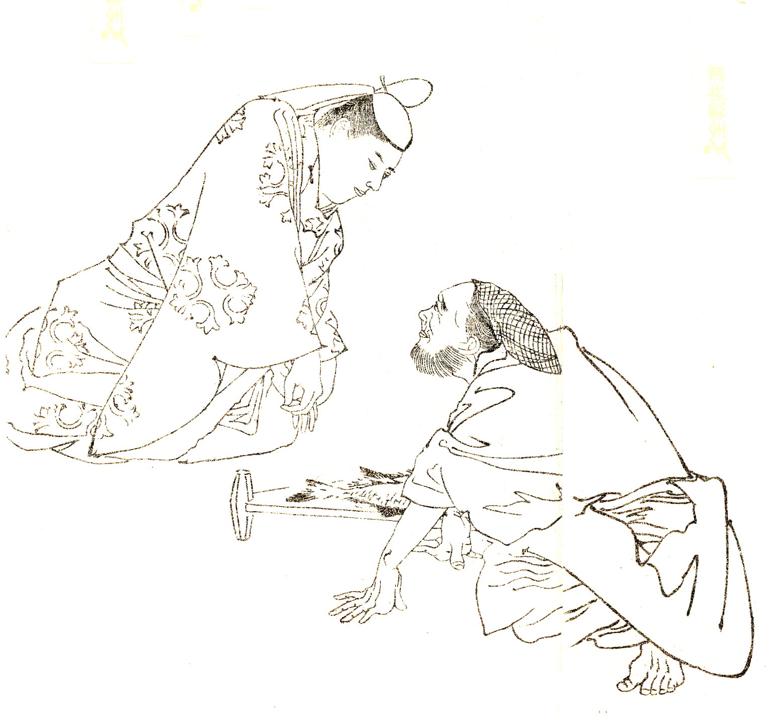 Fujiwara no Yoshino(藤原吉野) was a Japanese court noble in Heian period.